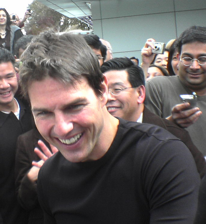 Tom Cruise in Sunnyvale, California